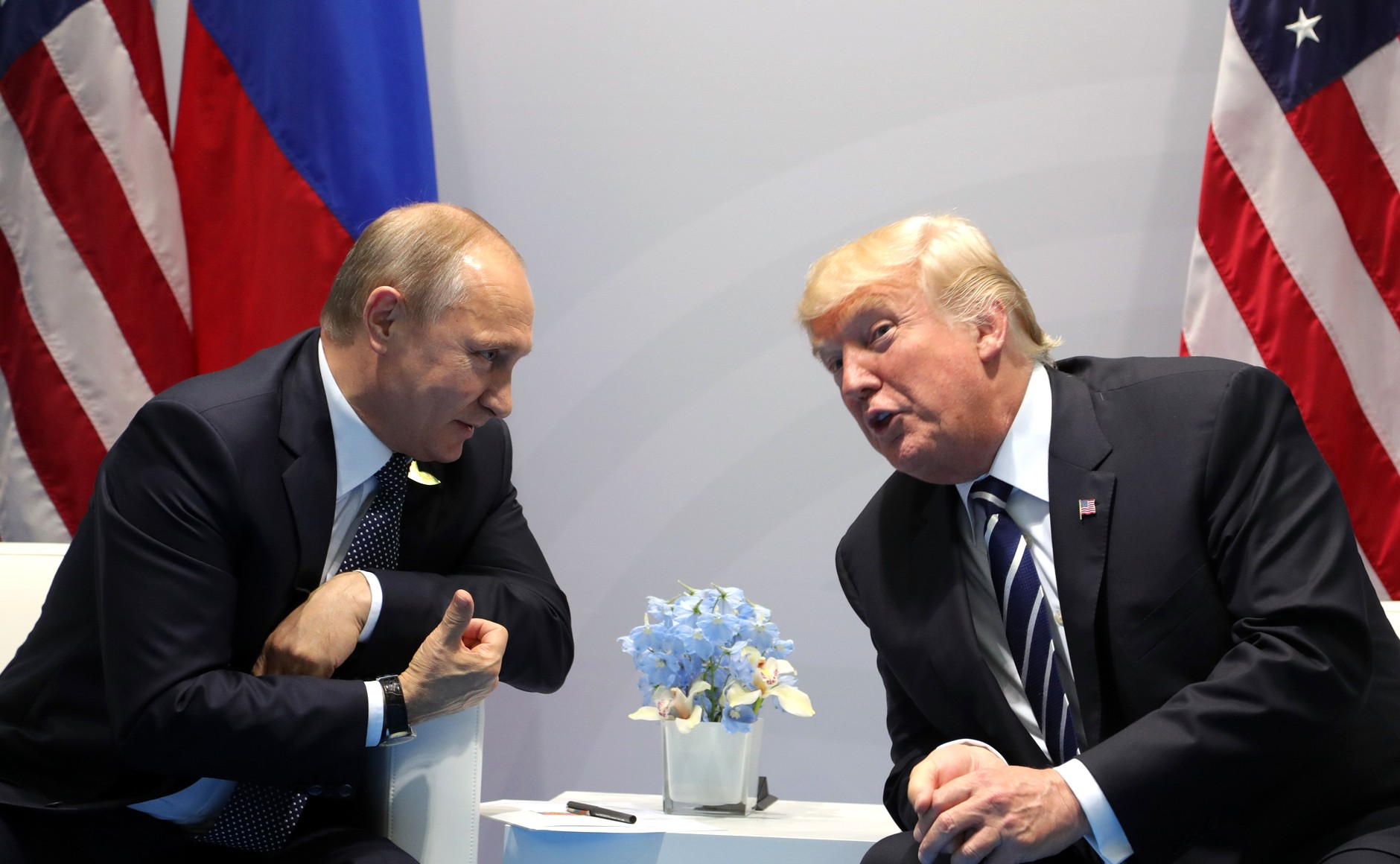 Vladimir Putin and Donald Trump meet at the 2017 G-20 Hamburg Summit